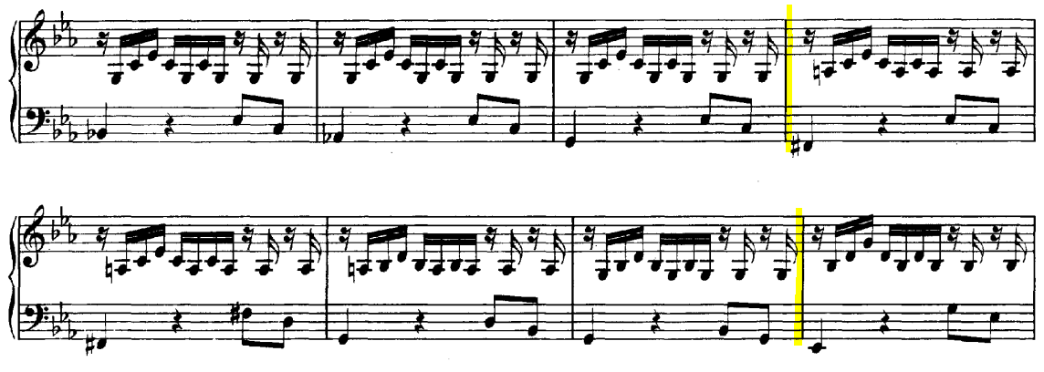 modulation section